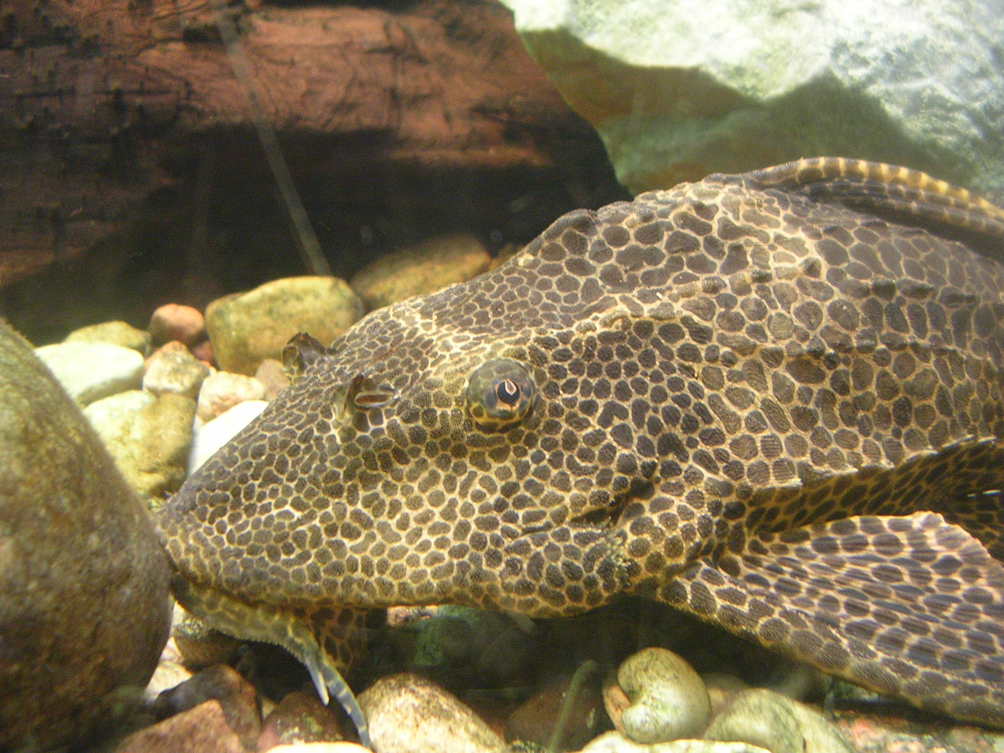 Glonojad in ZOO in Łódź (Pterygoplichthys gibbiceps).